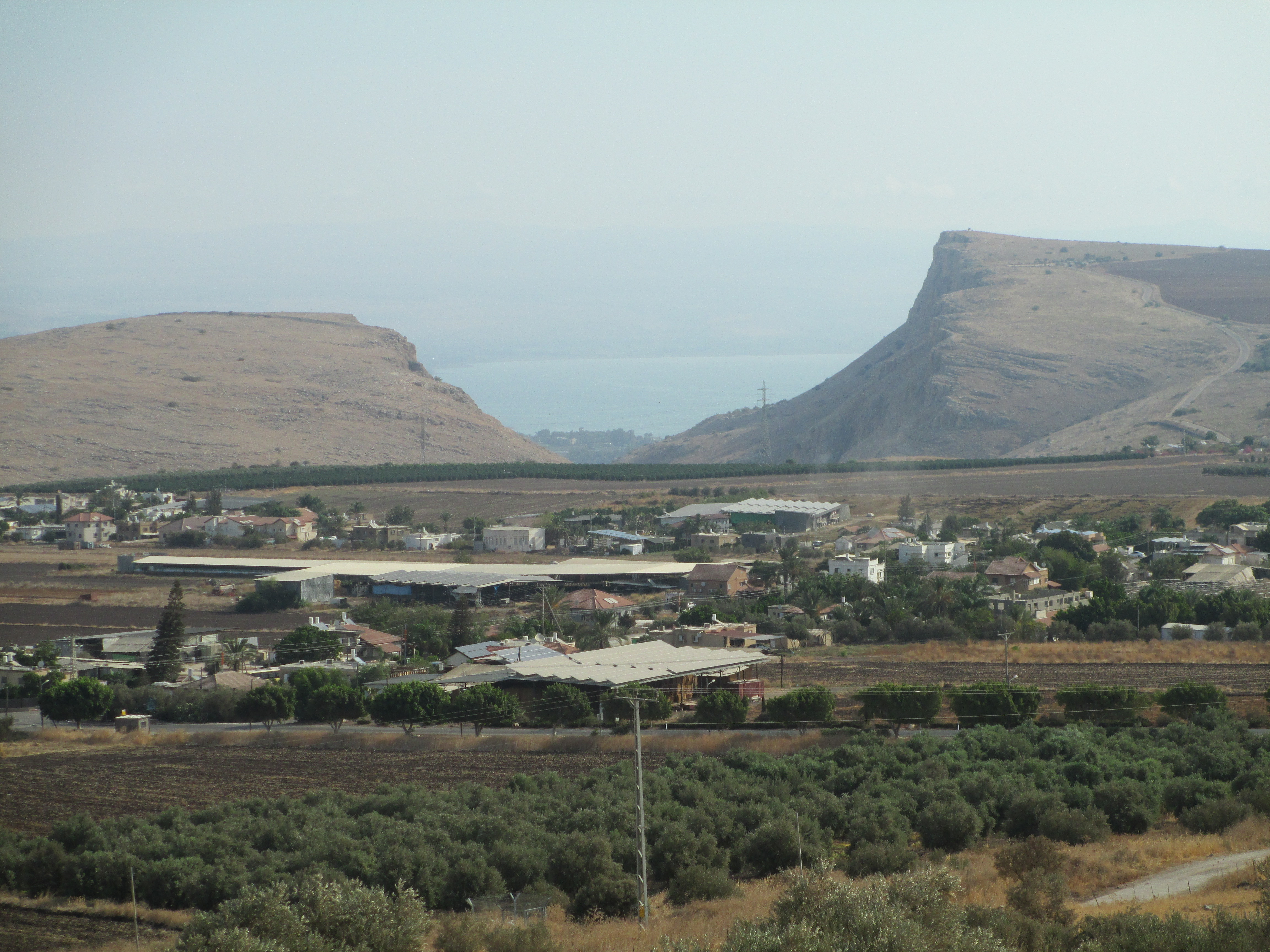 Arbel mountain